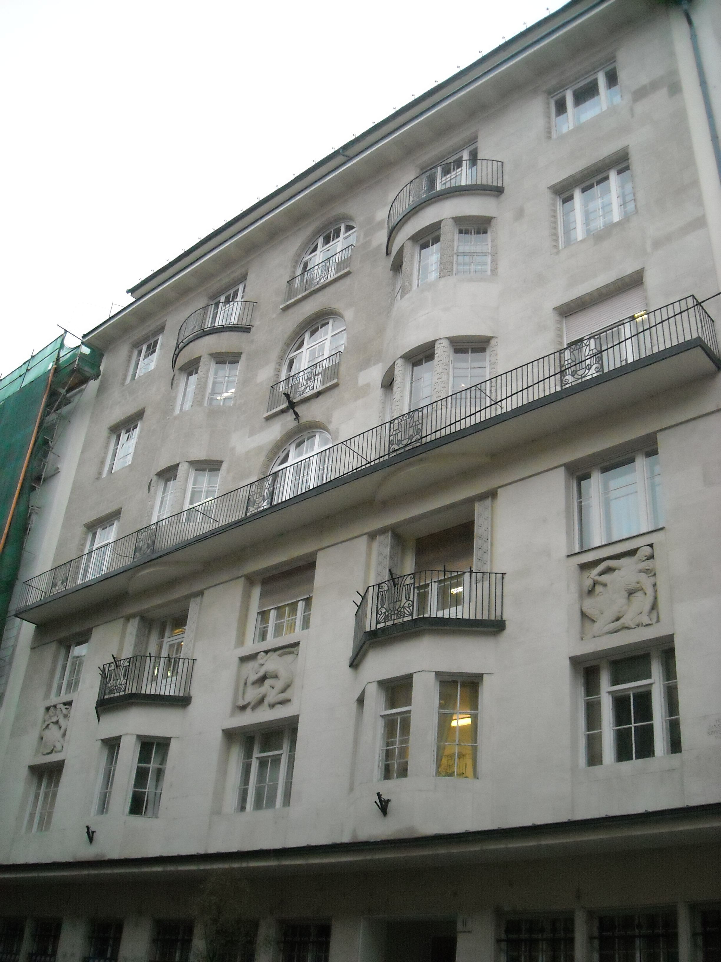 Nádor utca 11, Budapest